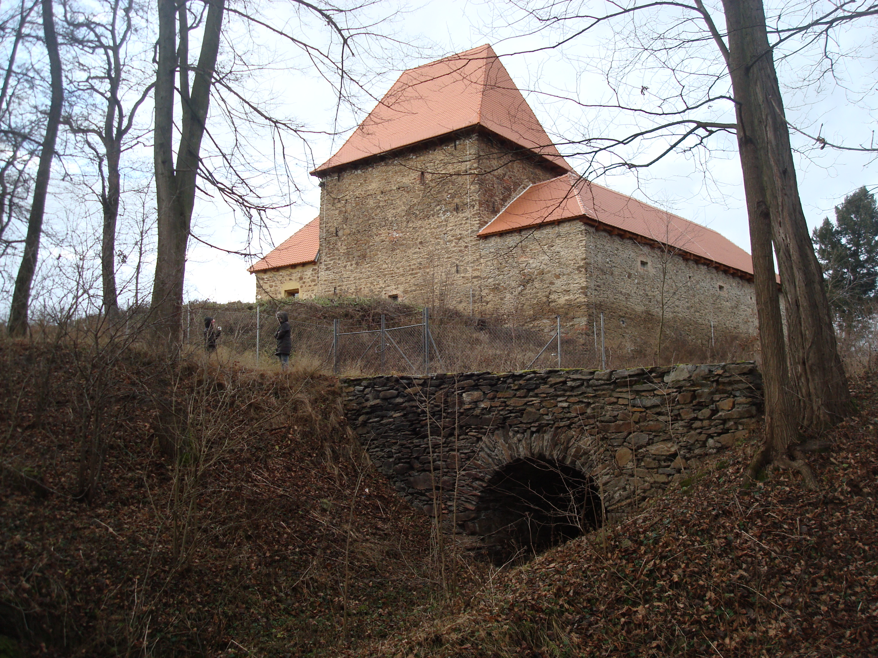 Býšov fortress near Temelín, Czech Republic.